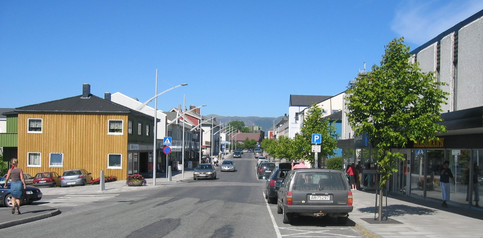 The main street (Storgata) in Brønnøysund, Norway